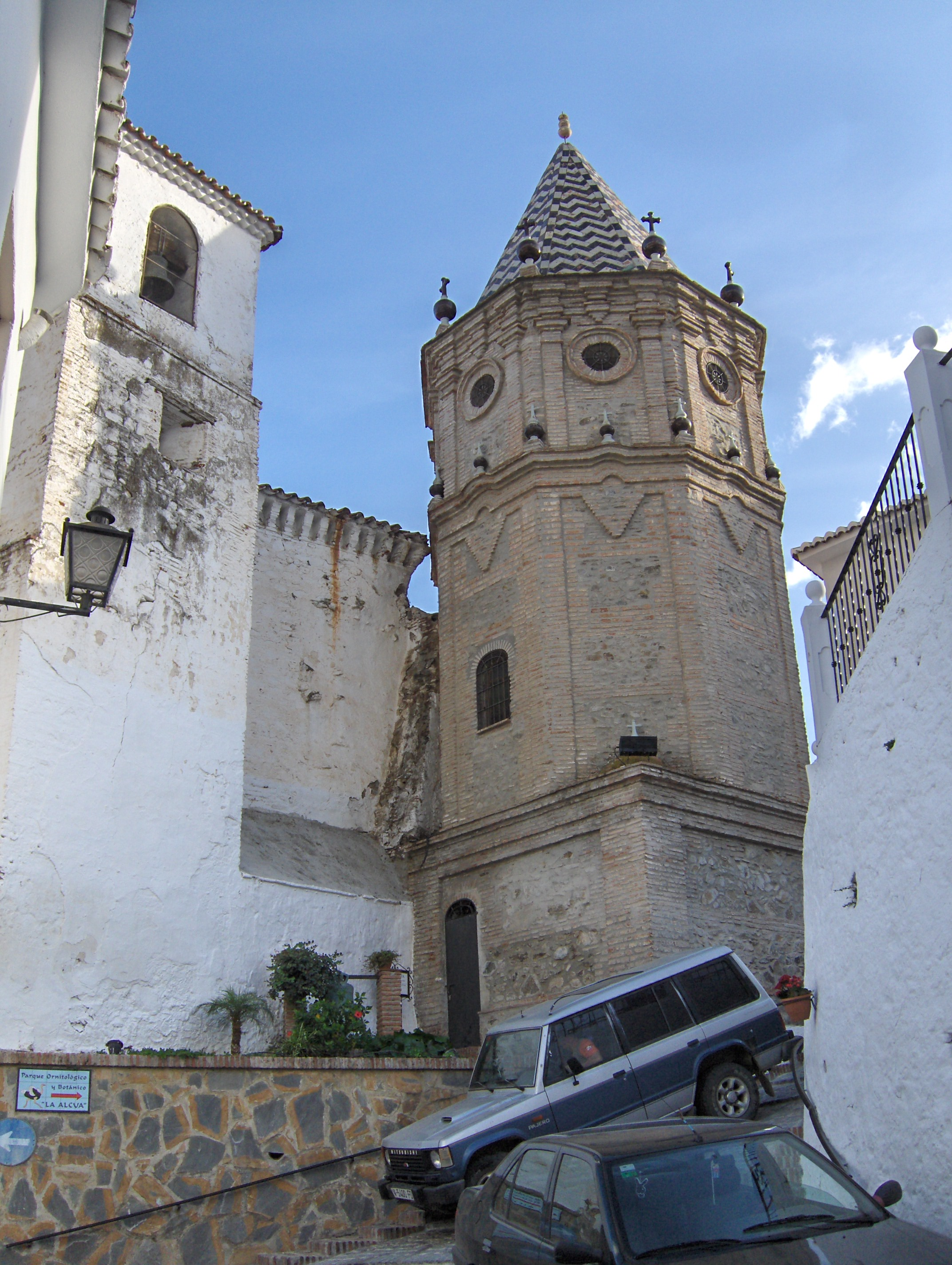 Church in El Borge, Málaga, Spain.